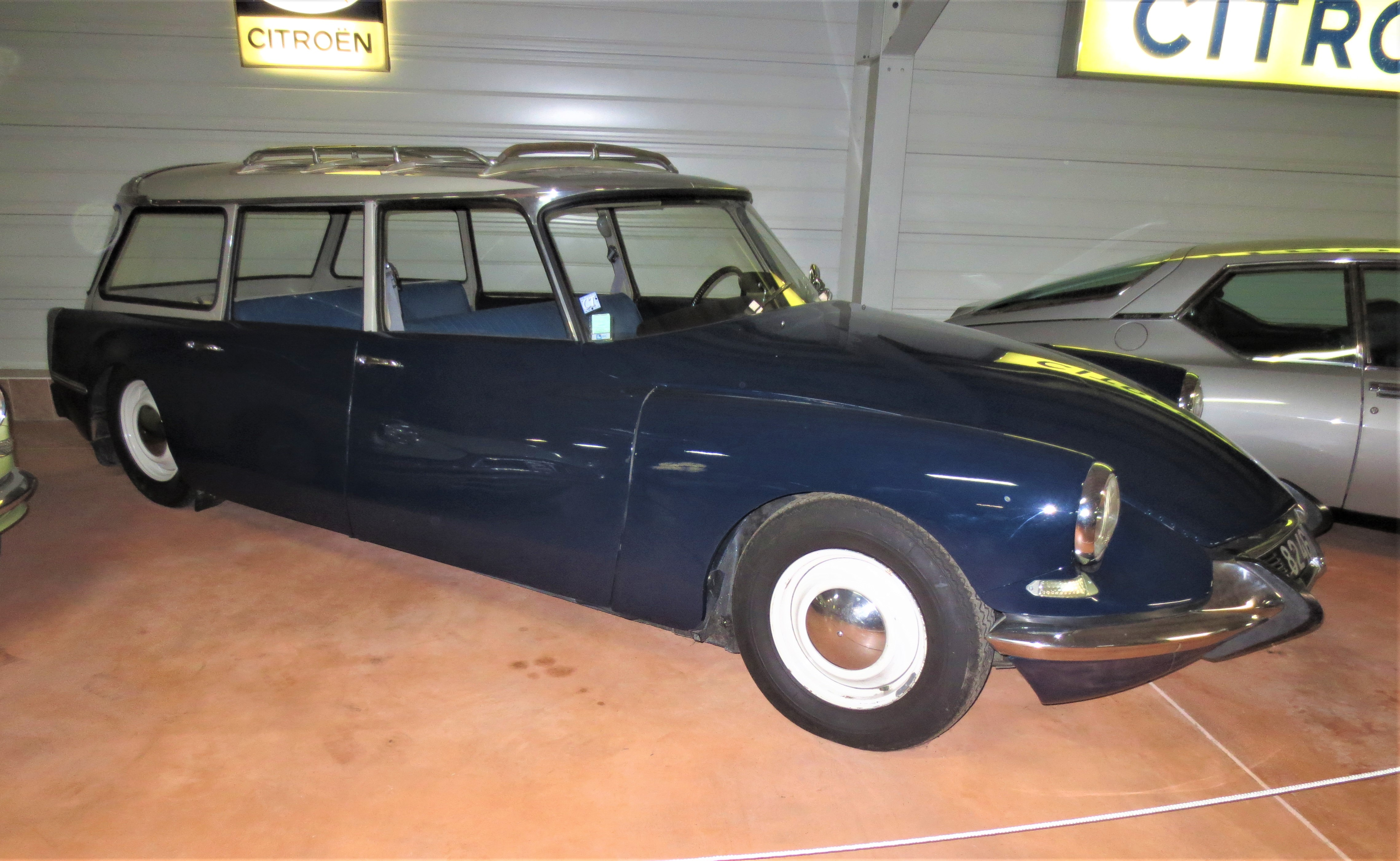 Subject: Citroën ID 19 Break Author: Luc106 Date:October 6th, 2014 Place/Country: Citromuseum, Castellane (France) I release all rights in the public domain.